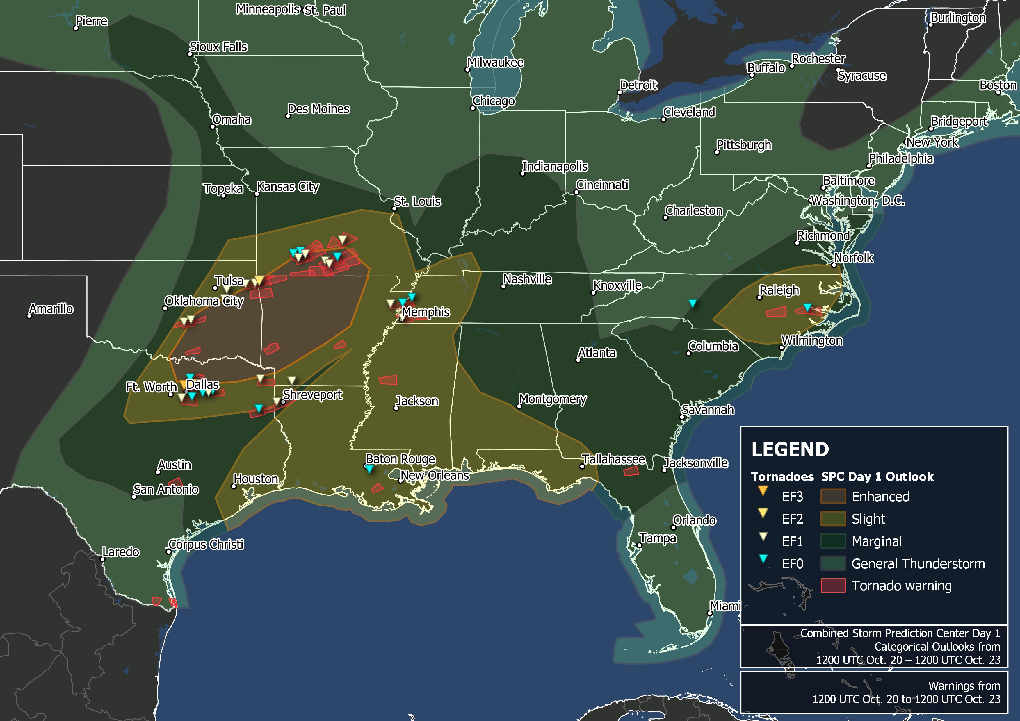 Map of confirmed tornadoes and tornado warnings issued by the National Weather Service from October 20 through October 23, 2019, over the southeastern United States and tornadoes confirmed and surveyed by the National Weather Service. Map produced in QGIS with border outlines from the United States Census Bureau. National Weather Service warning outlines available from the Iowa Environmental Mesonet and tornado data available from the National Weather Service.